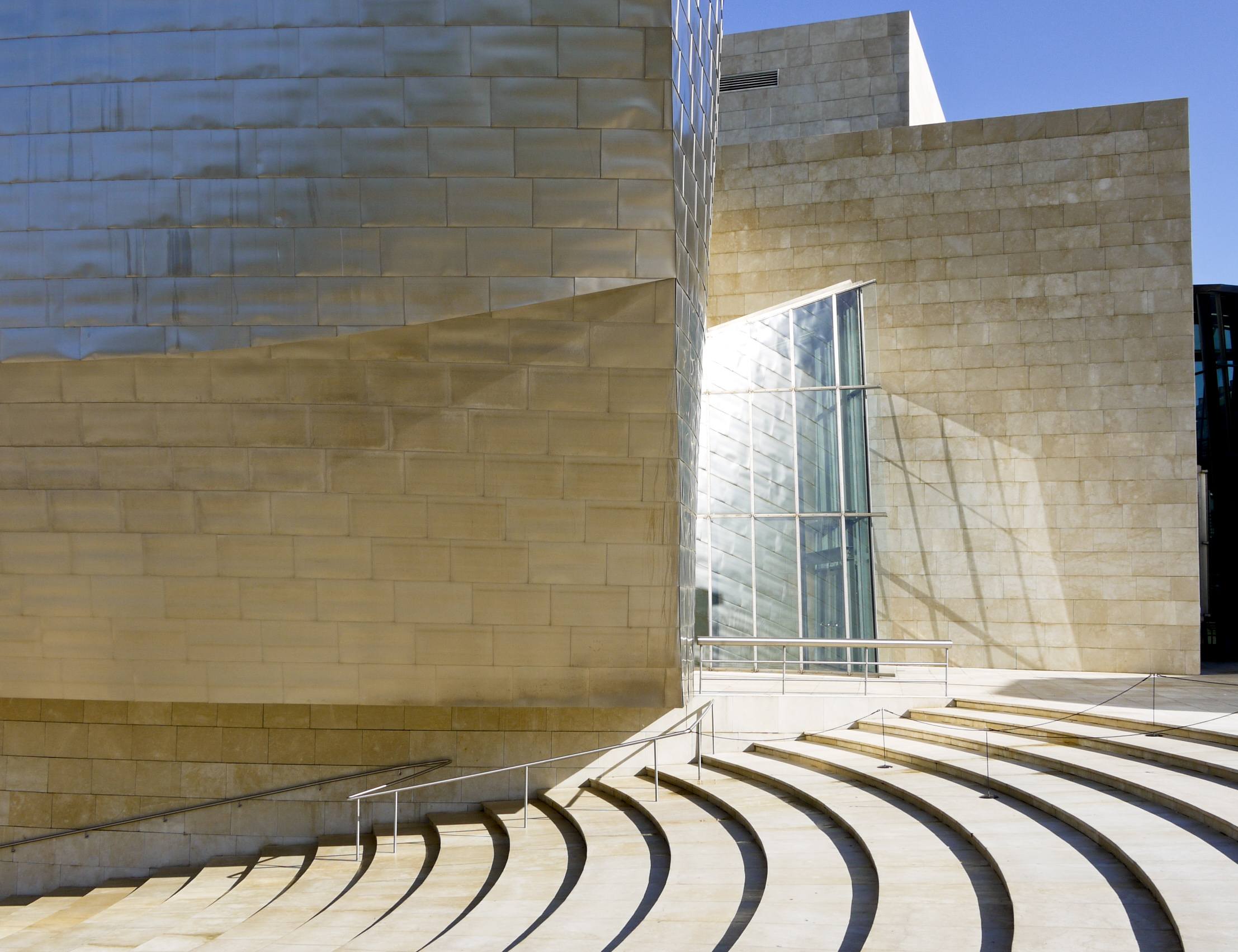 Museo Guggenheim Bilbao, walls at entrance and steps, Bilbao, Spain